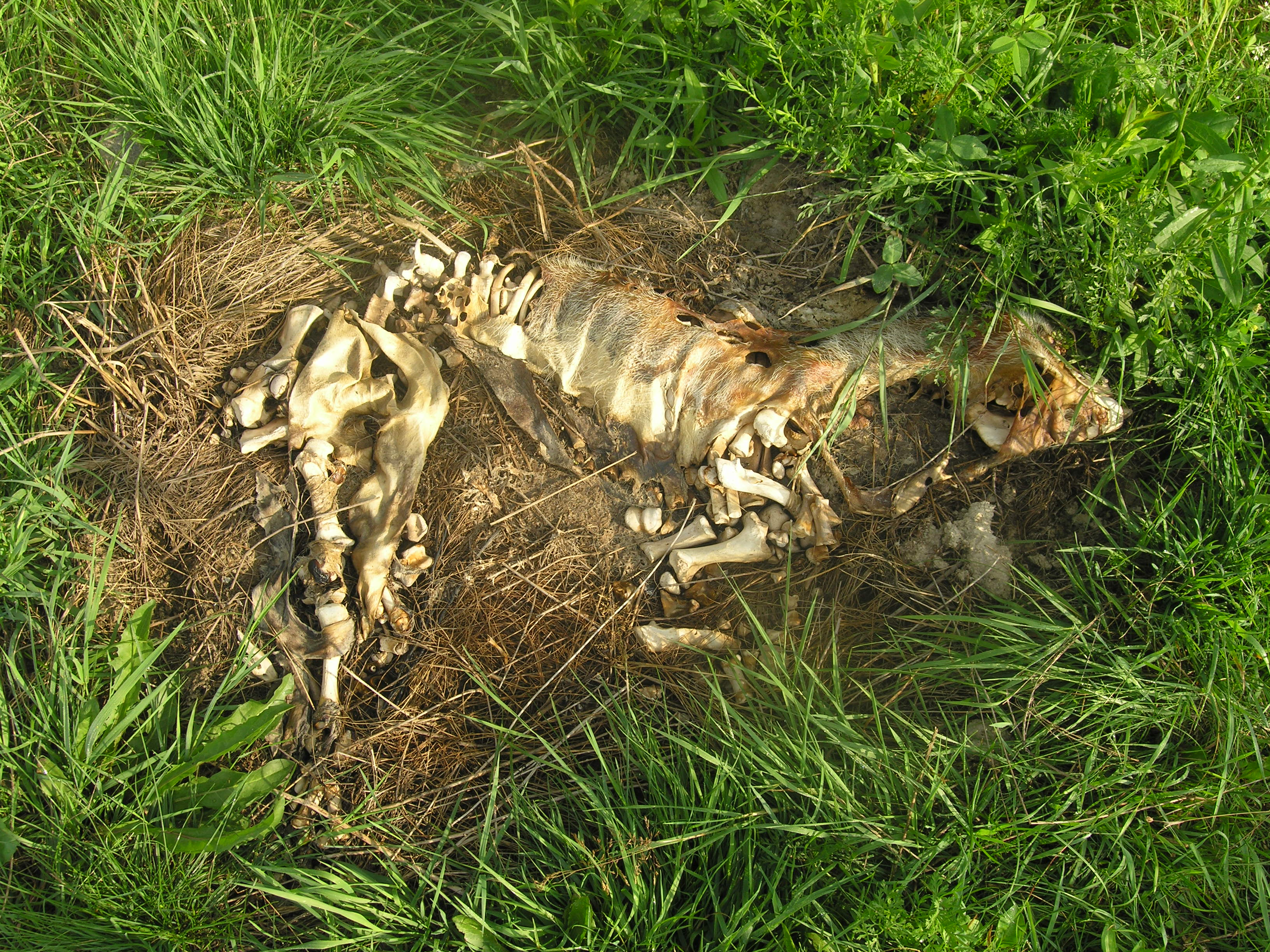 Example of a pig carcass (Sus scrofa) in the dry/remains stage of decomposition. All that remains is skin and bone and the surrounding vegetation is beginning to grow over the carcass.